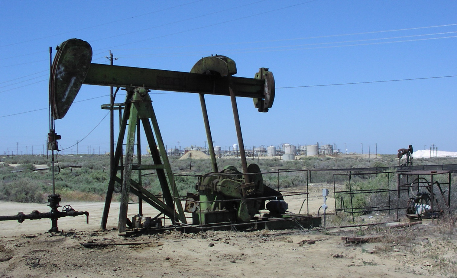 Photograph of an oil well at the Lost Hills Field. Just north of G.P. Road, about a mile west of the California Aqueduct. This was one of few areas in the field that didn't have a "keep out" sign.